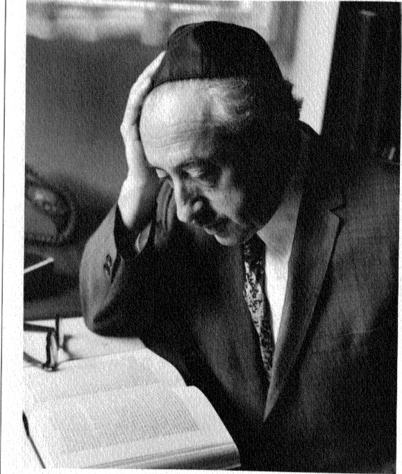 Photo portrait of philosopher Eliezer Berkovits